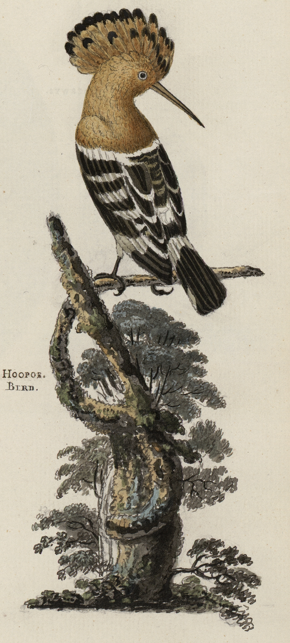 An image from a set of 8 extra-illustrated volumes of A tour in Wales by Thomas Pennant (1726-1798) that chronicle the three journeys he made through Wales between 1773 and 1776. These volumes are unique because they were compiled for Pennant's own library at Downing. This edition was produced in 1781. The volumes include a number of original drawings by Moses Griffiths, Ingleby and other well known artists of the period. Thomas Pennant (1726-1798)